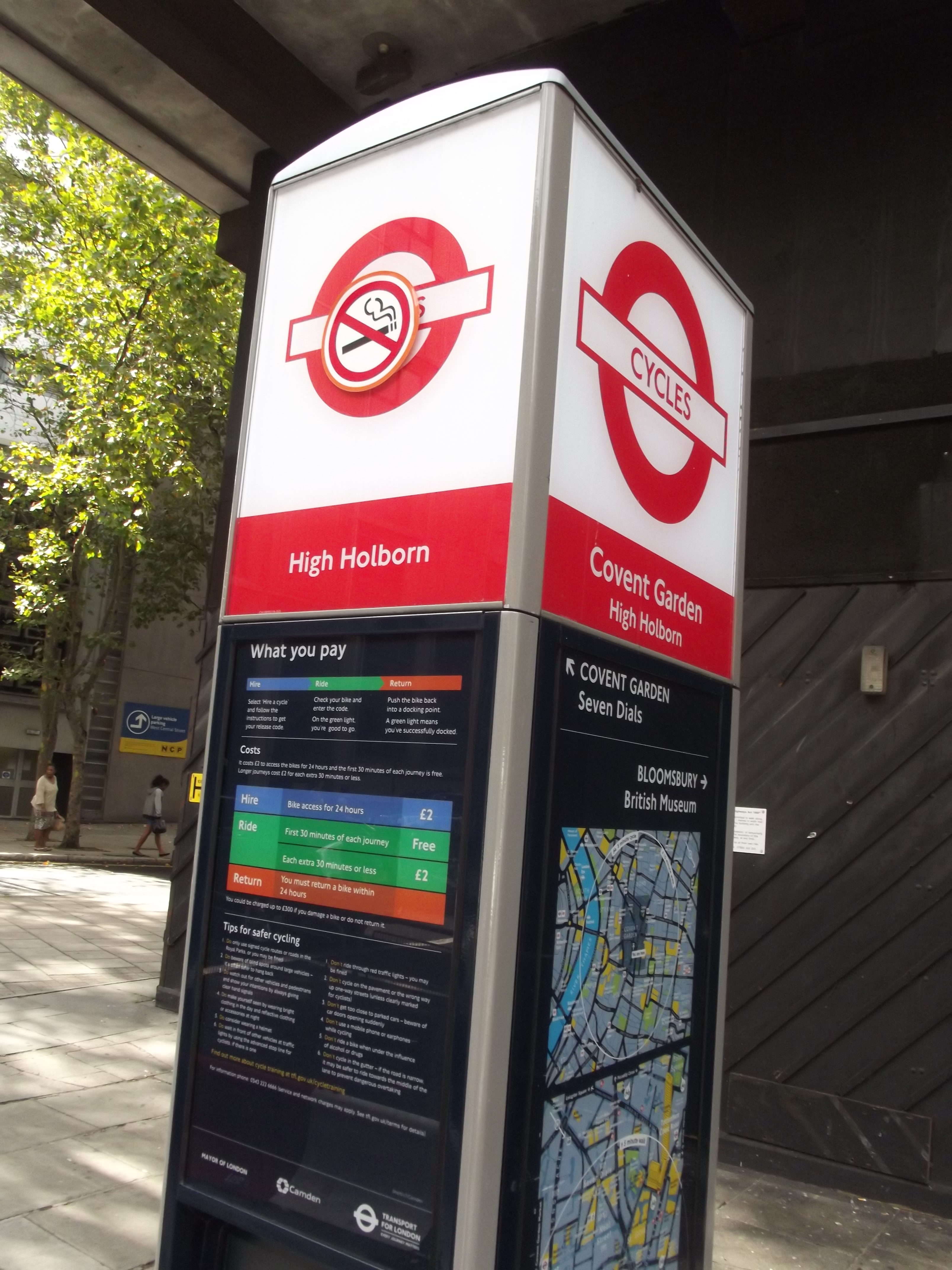 Boris Bikes seen on High Holborn. We were on our way to get the tube from Holborn Underground Station, having left the British Museum. Seen close to Museum Street. They are actually called Santander Cycles The scheme started in 2010. Was sponsored by Barclays Bank from 2010 to March 2015, when they were known then as Barclays Cycle Hire. Santander took over the sponsorship from April 2015.